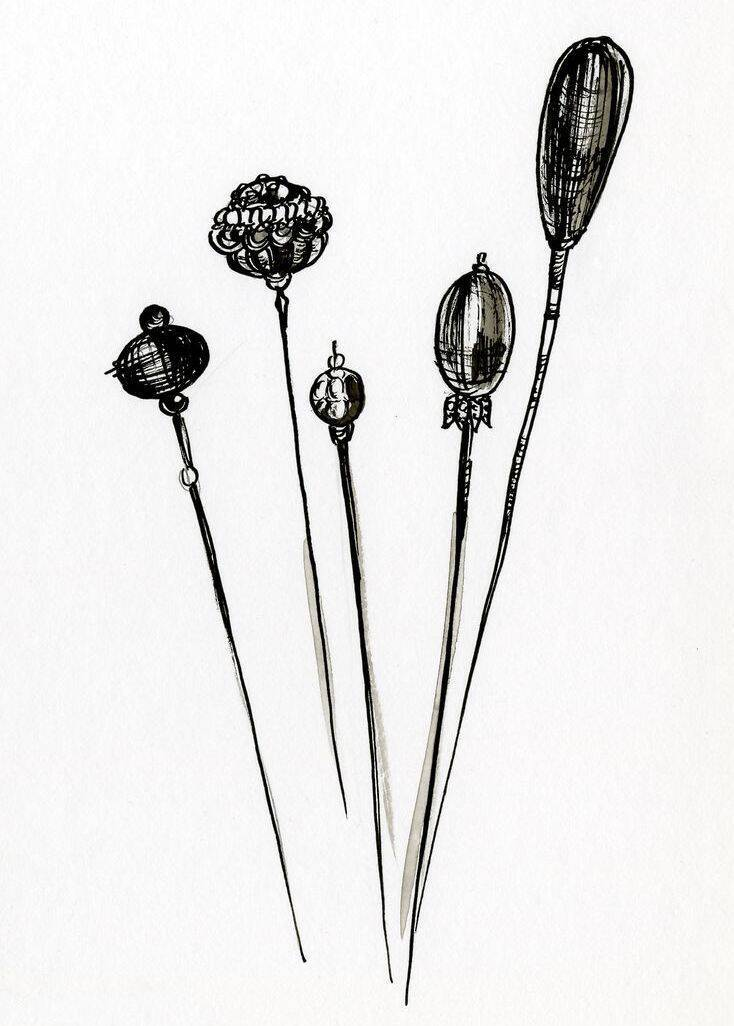 The description of the concept in this drawing is: Long, straight pins with a large head, which is usually ornamented, intended to be worn on a hat as a fastening device or decoration. (AAT)